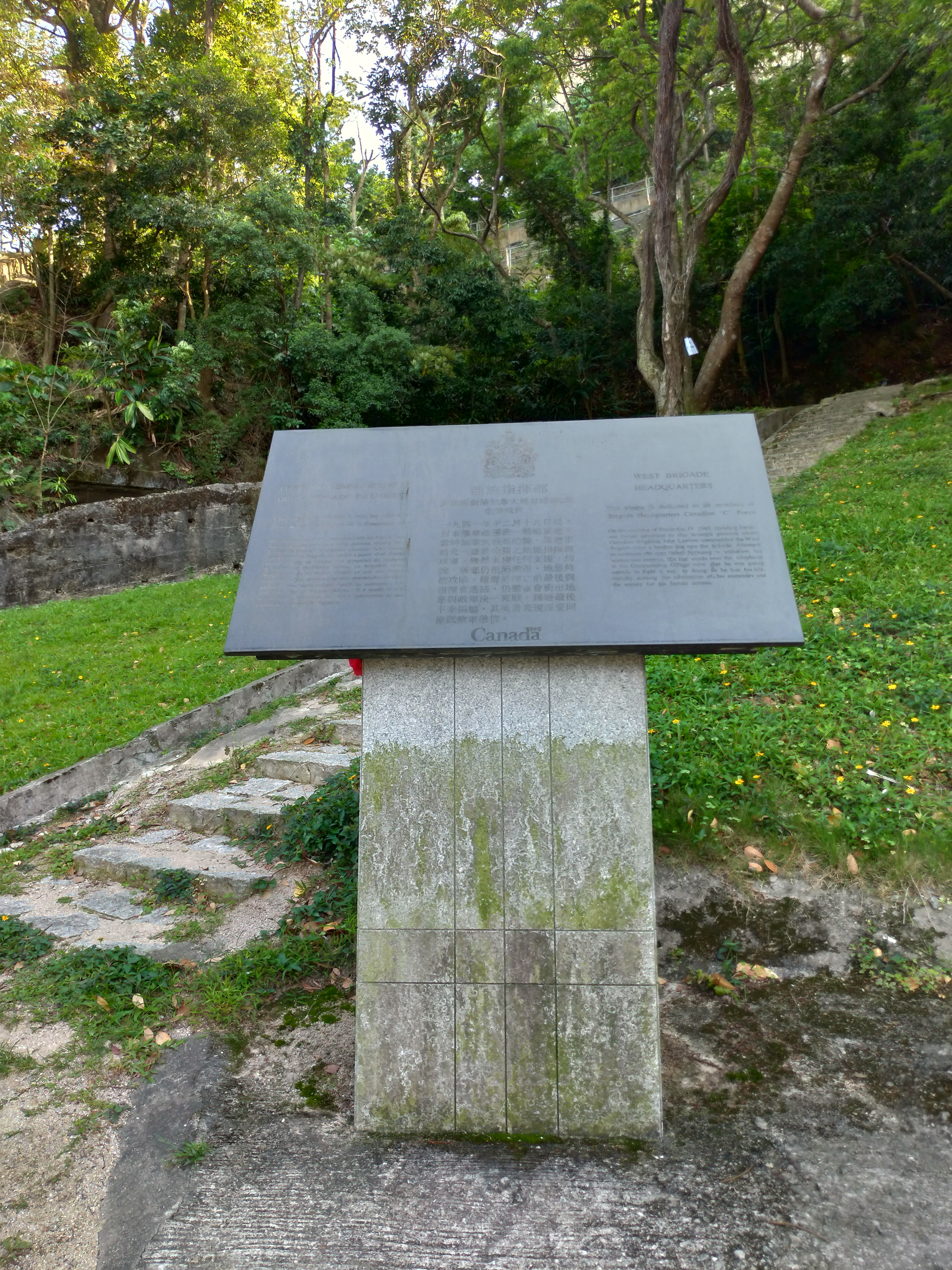 The memorial of West Brigade Headquarters at Wong Nai Chung Gap on Hong Kong Island.